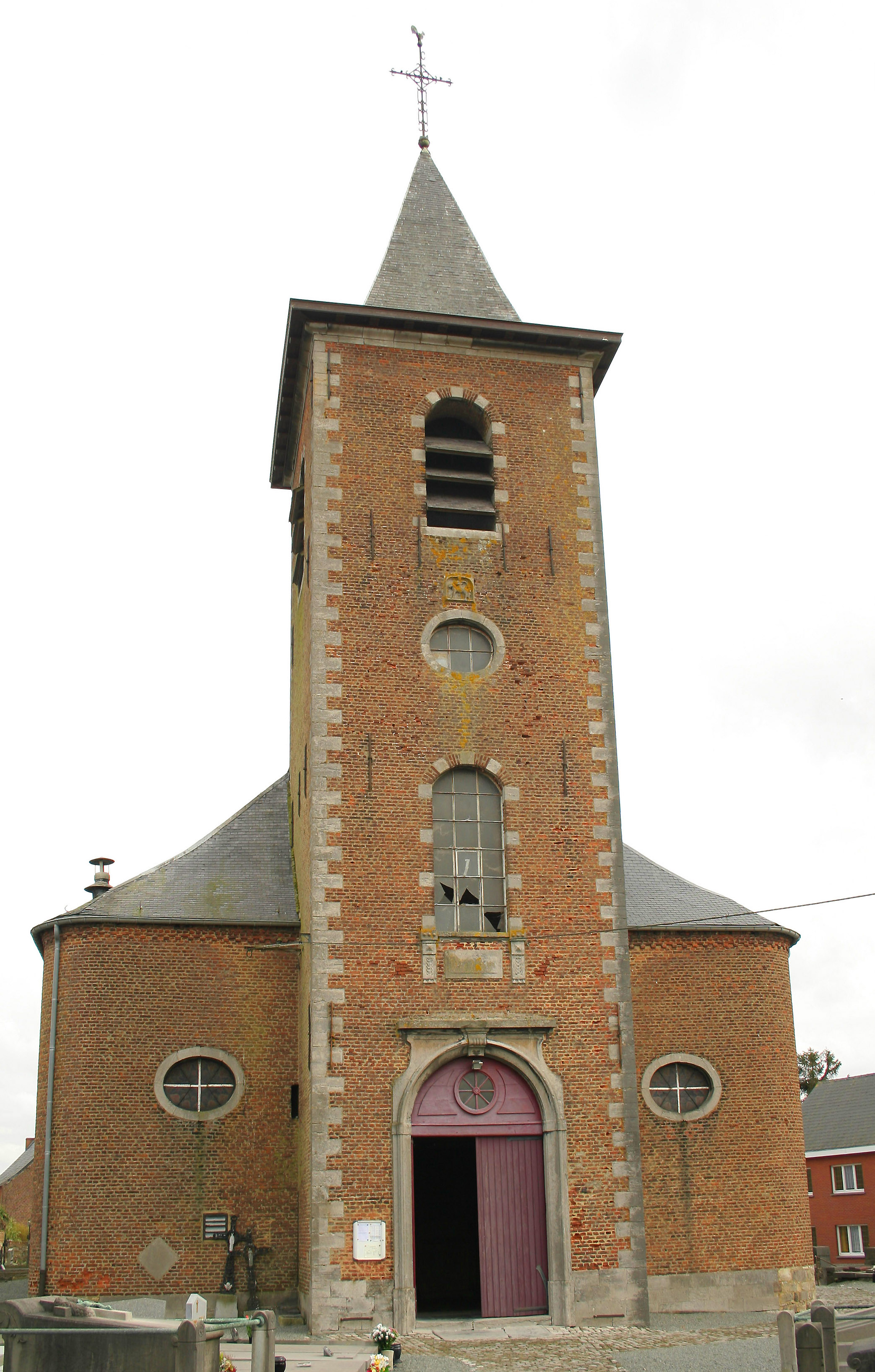 Montignies-lez-Lens (Belgium), the Saint Martin’s church (1791).